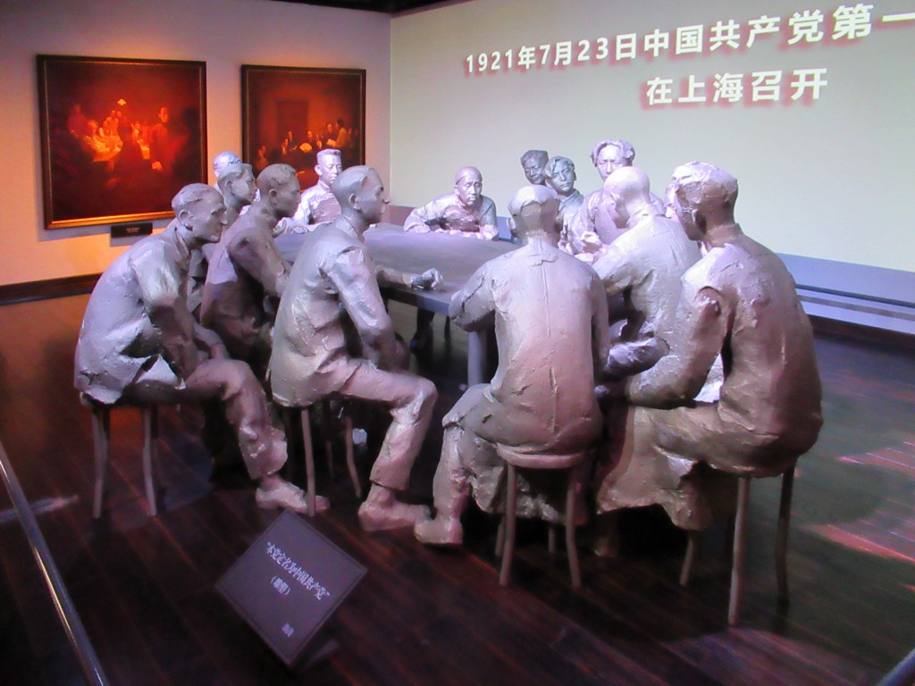 A museum commemorating the First National Congress of the Chinese Communist Party (1921) is in the former French Concession of Shanghai, China.